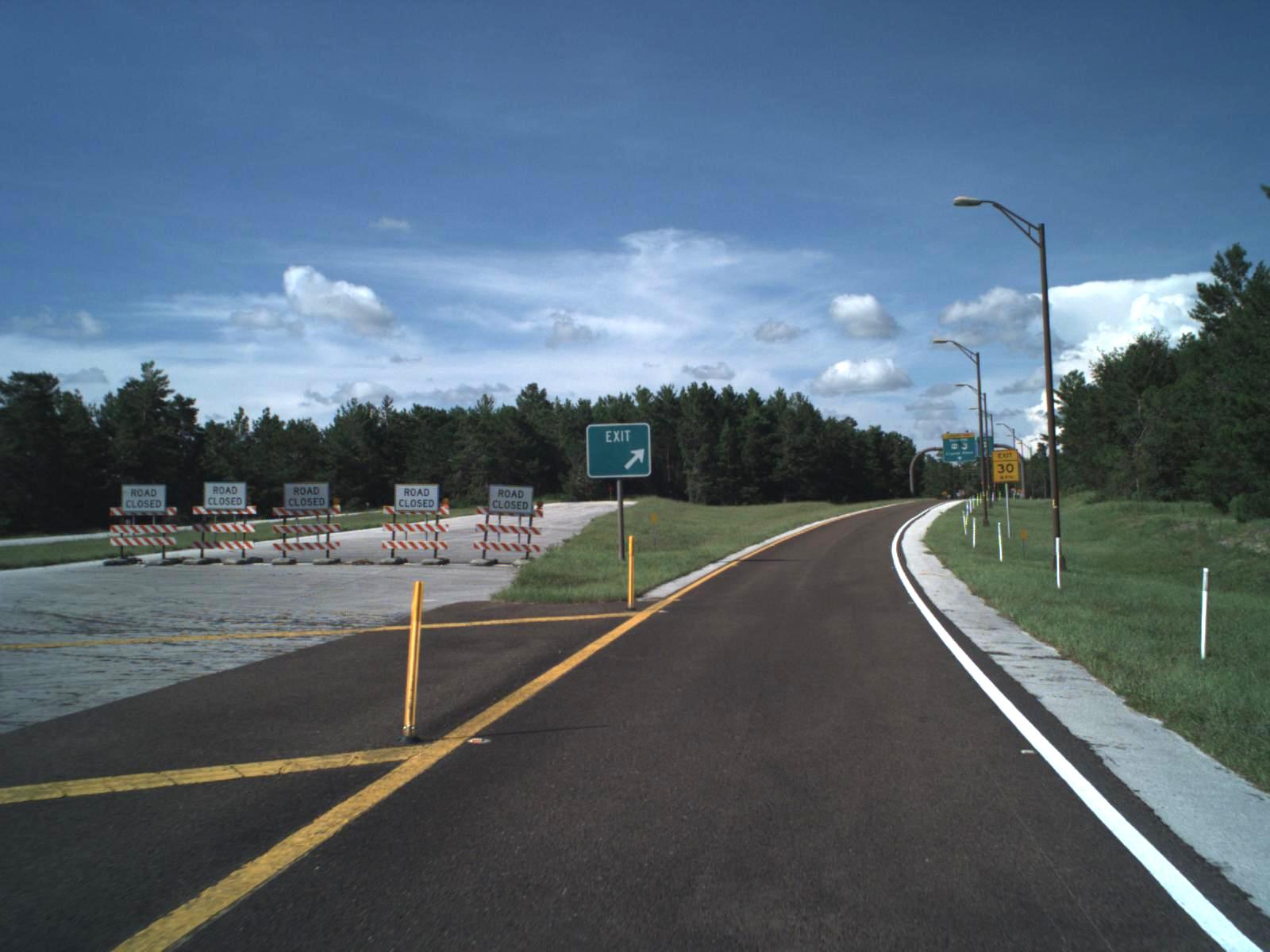 at the north end of SR 589, mile 17.690